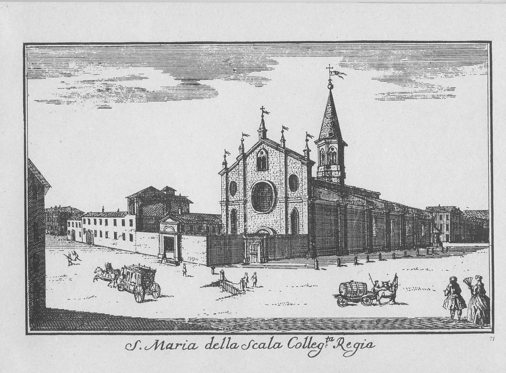 Marc'Antonio Dal Re (1697-1766), Santa Maria della Scala, Royal Collegiata, in Milan, Italy. This engraving is # 71 from a set of 88 Vedute di Milano ("Views of Milan") published by Del Re around 1745. It shows the gothic church which was demolished to build the famous Teatro alla Scala, which took its name from it.